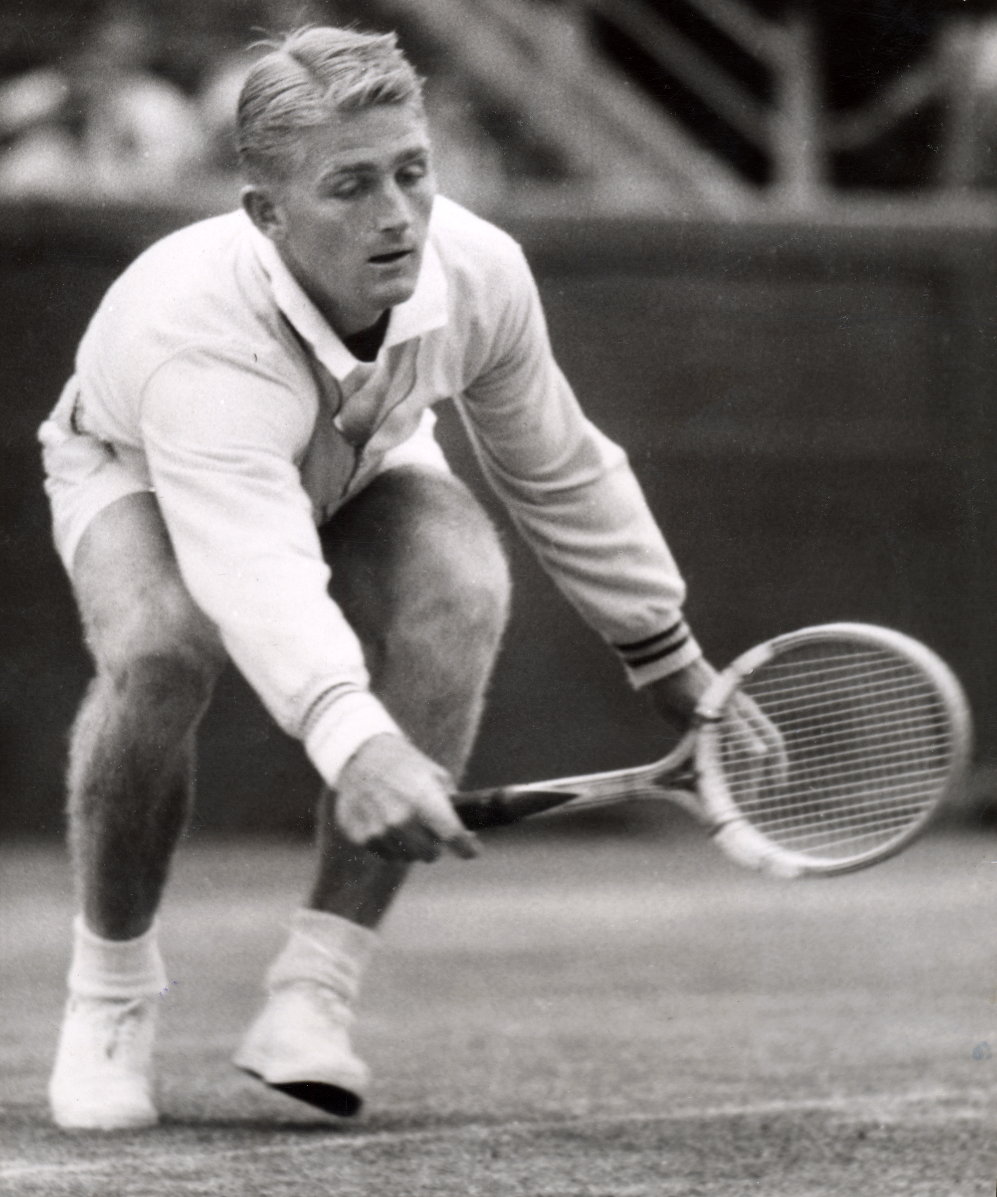 Australian tennis player Lew Hoad at Kooyong in 1954